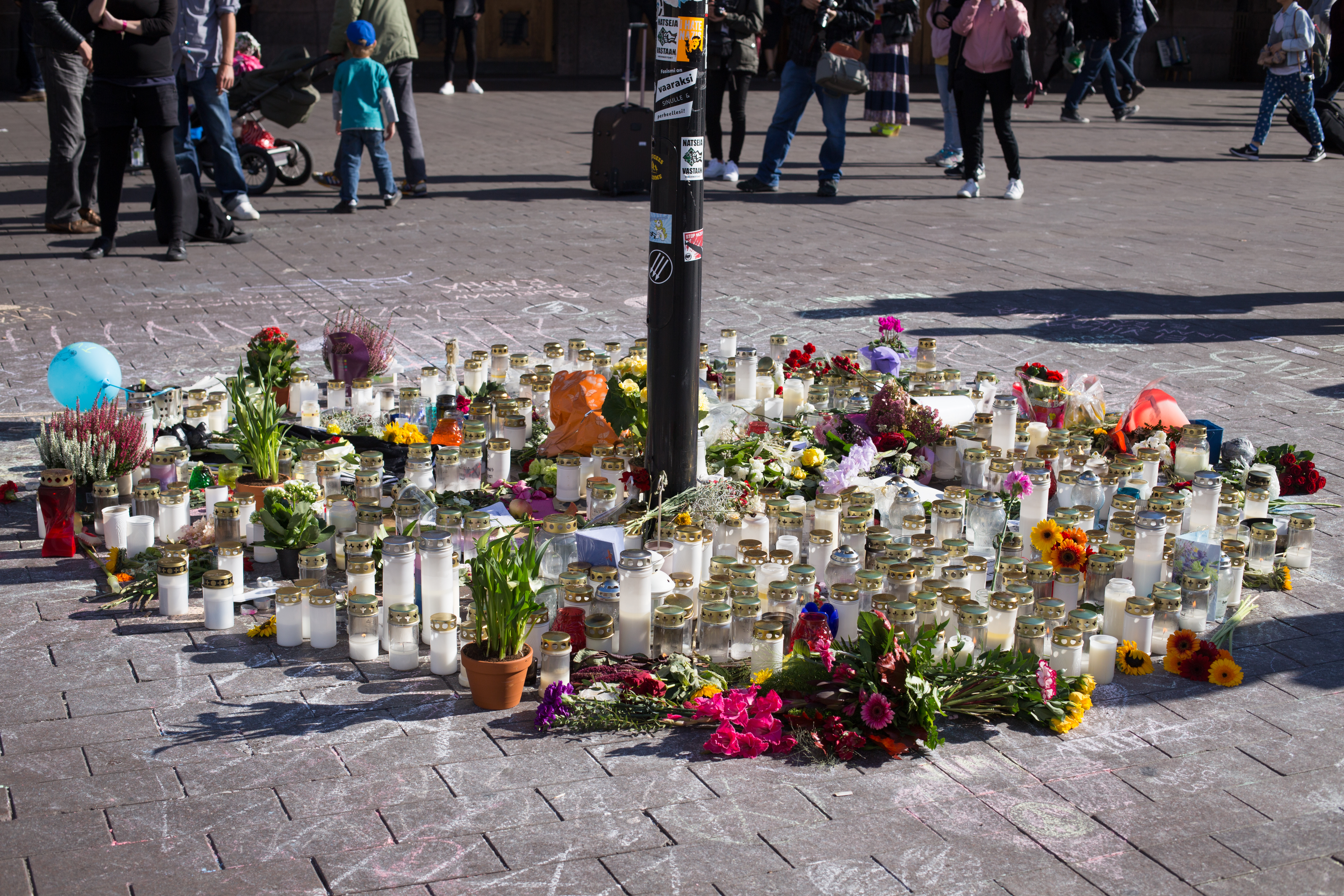 Man died 16 September, a roughly week after being assaulted during neo-Nazi protest in Helsinki. People paid their respects to the victim outside Helsinki Central Station.